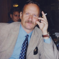 Paris 2011